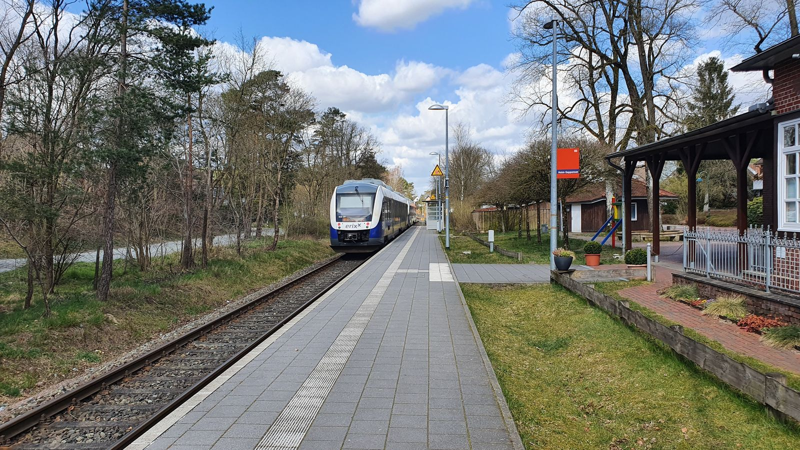 Holm-Seppensen Railwaystation